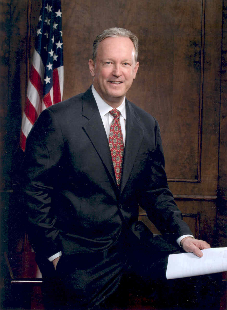 George Radanovich, member of the United States House of Representatives.